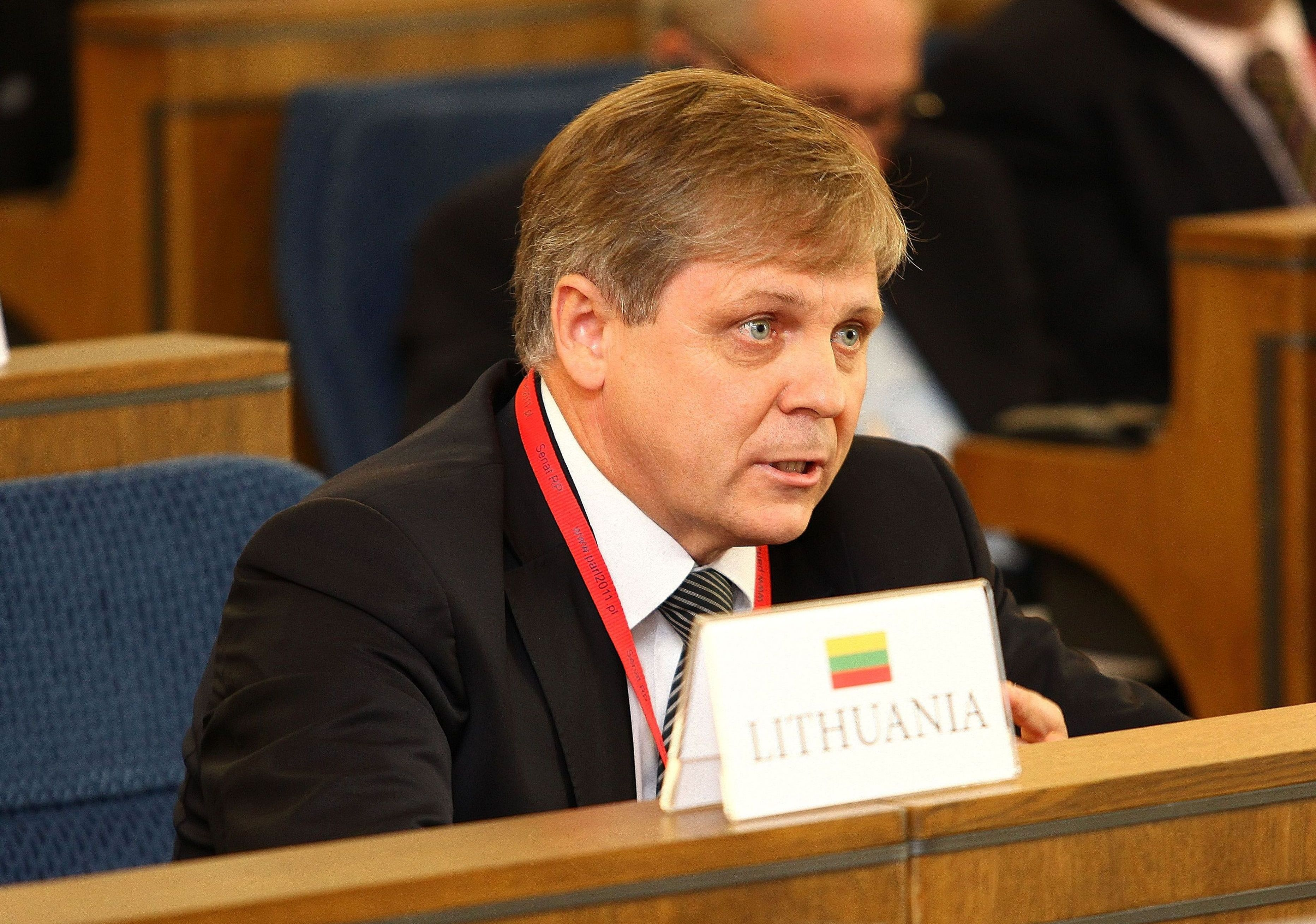 Edmundas Pupinis. "Common Agricultural Policy 2014-2020" - meeting of Chairpersons of Agriculture Committees of the EU member states in the Polish Senate